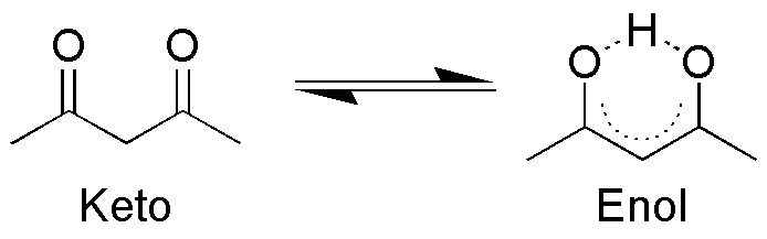 Keto-Enol Equilibrium of Acetylacetone